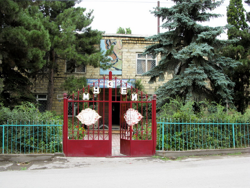 Building of the Museum of Local history, culture and geography of the Aktynsky District in Dagestan.